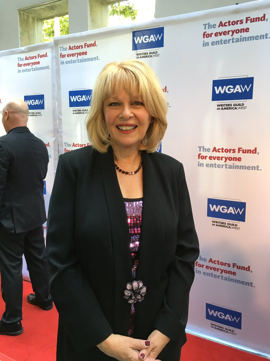 Actress Ilene Graff in 2017